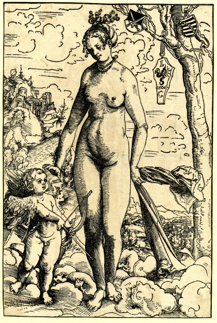 Venus treading on clouds with scarf in her left hand, reaching for Cupid with bow and arrow to the left; landscape background, the two Saxon shields are suspended from boughs